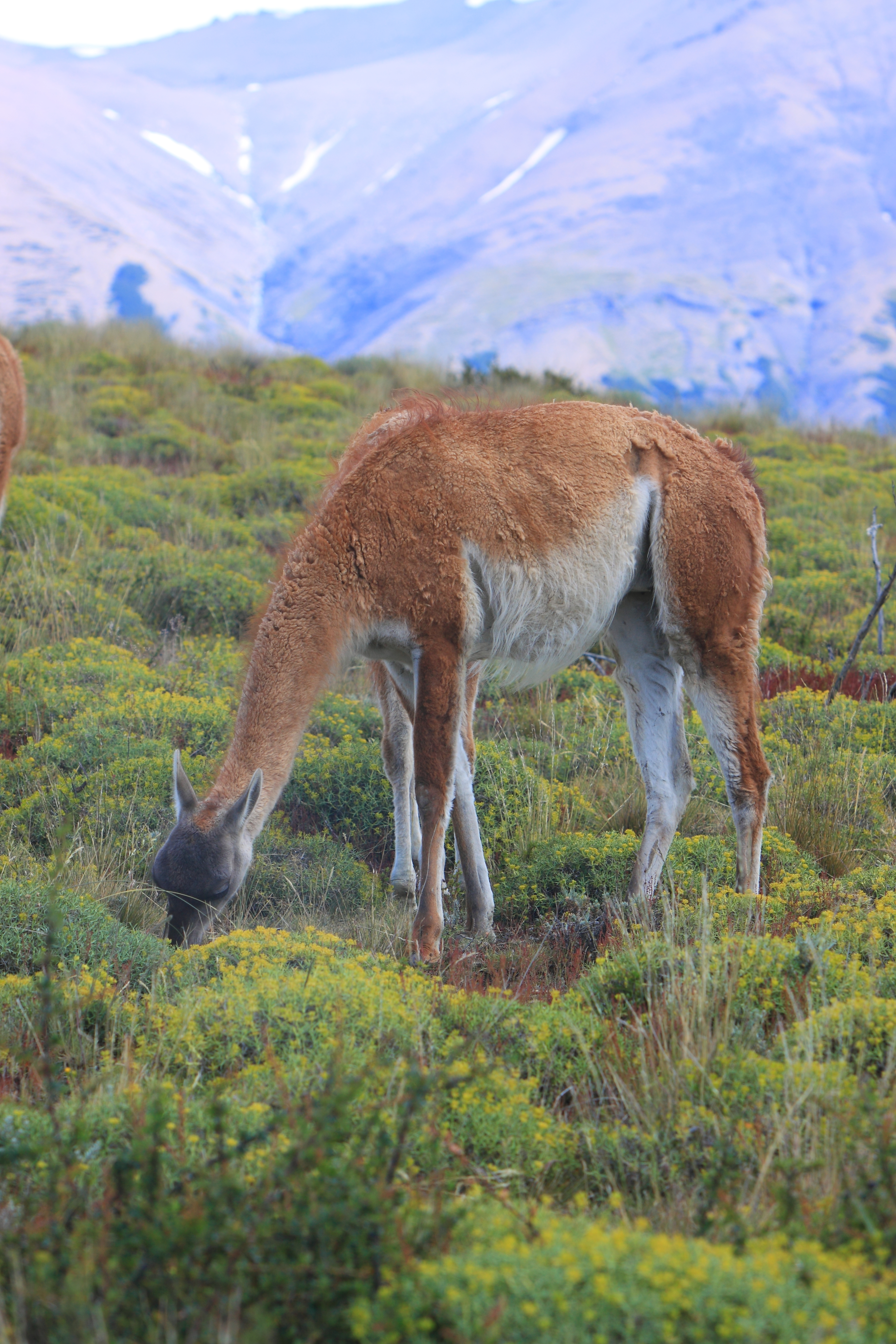 Please, have this description accessible to all by translating it in different languages.